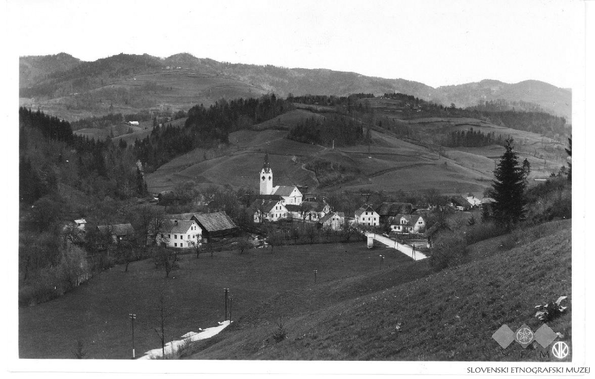 Postcard of Blagovica